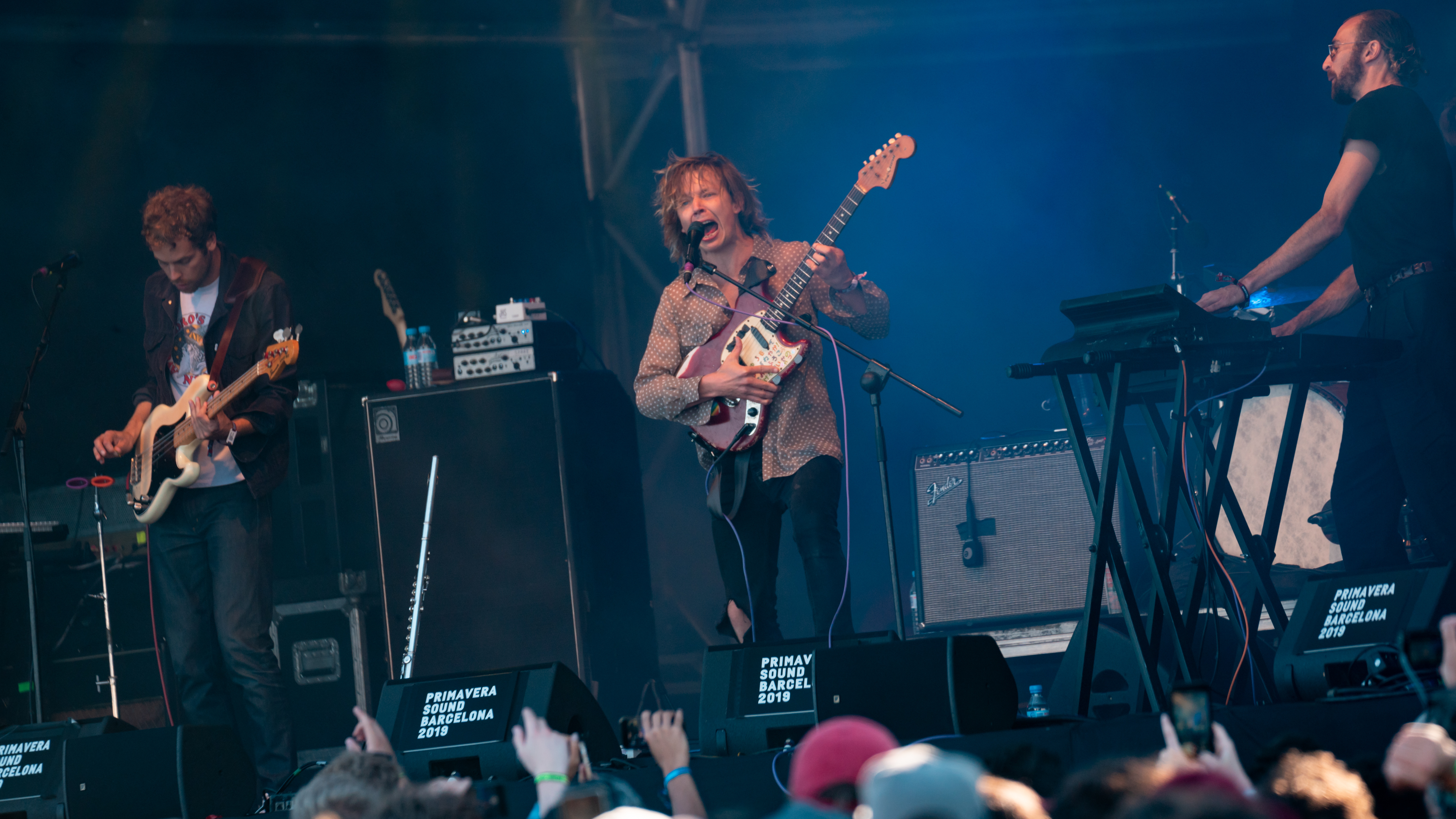 Australian rock band Pond performing at Primavera Sound festival 2019